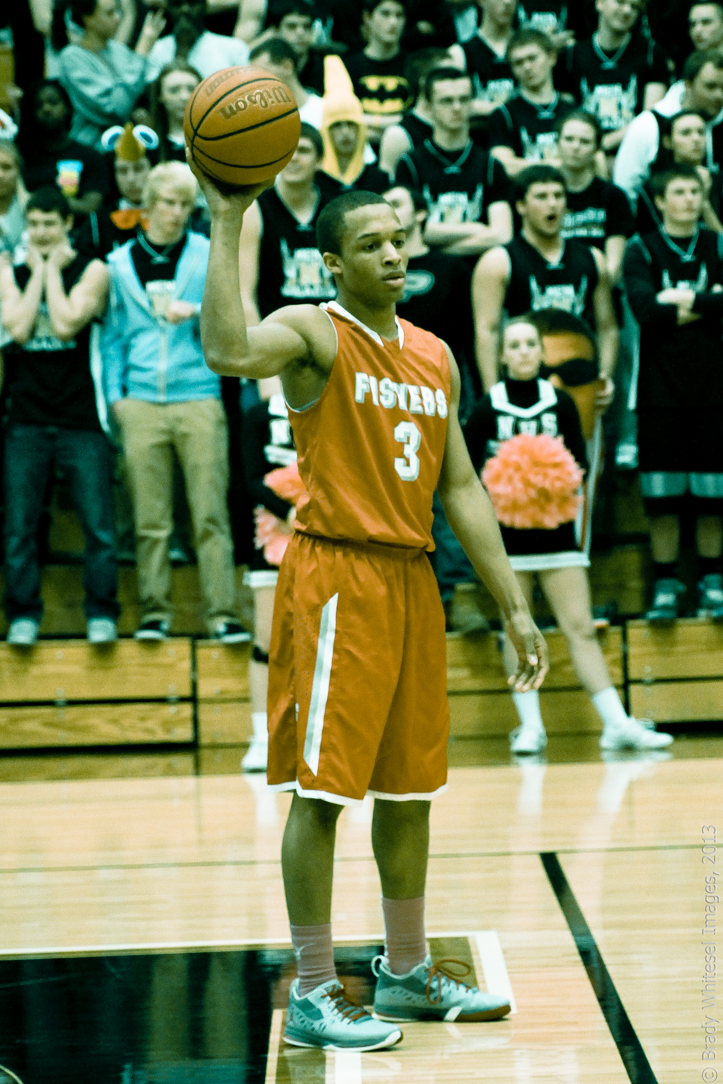 Jaylon Brown in high school